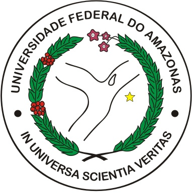 Coat of Arms of the Brazilian Federal University of Amazonas